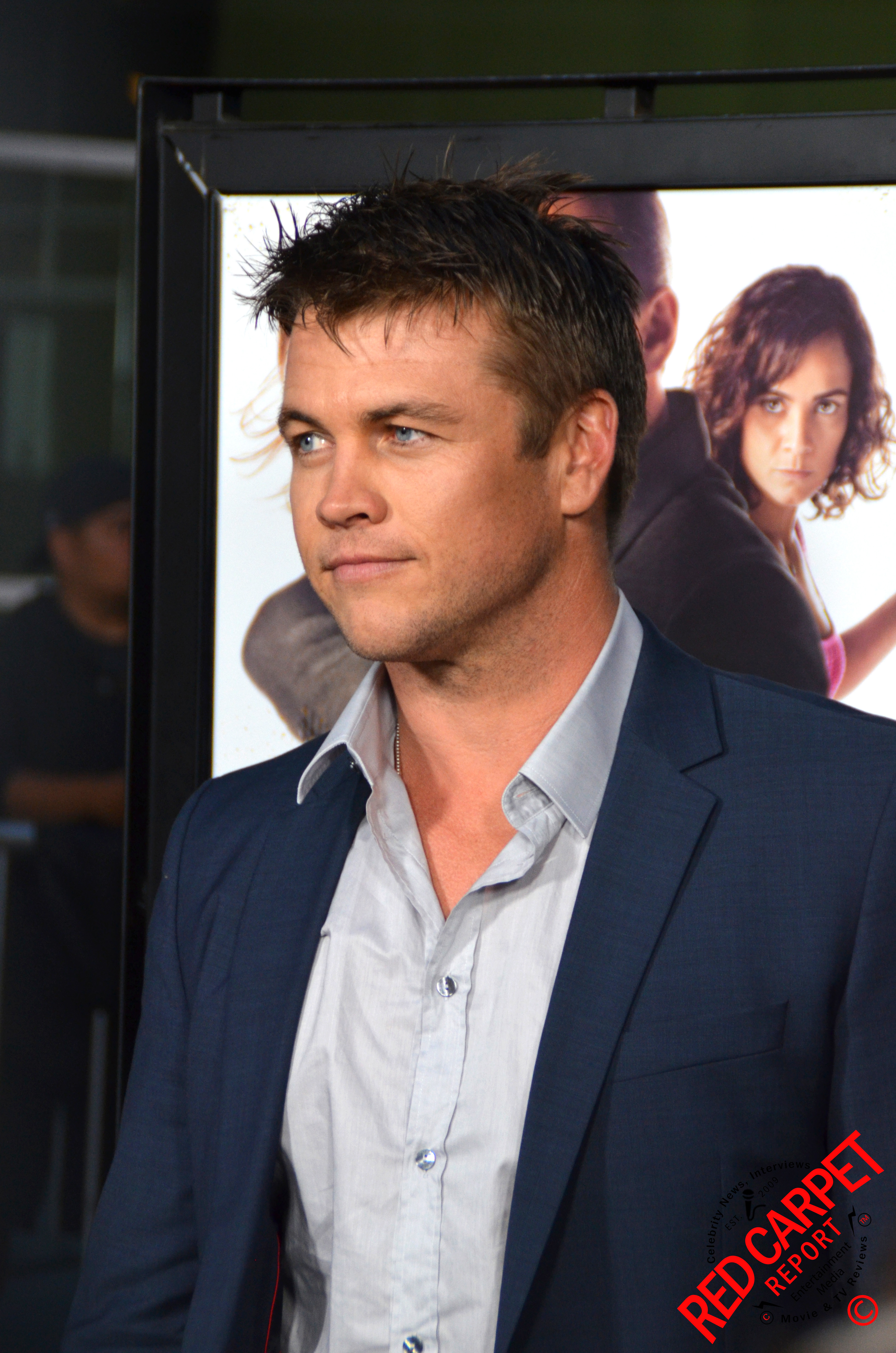 Actor Luke Hemsworth at the Los Angeles Premiere of "Kill Me Three Times" on March 24, 2015